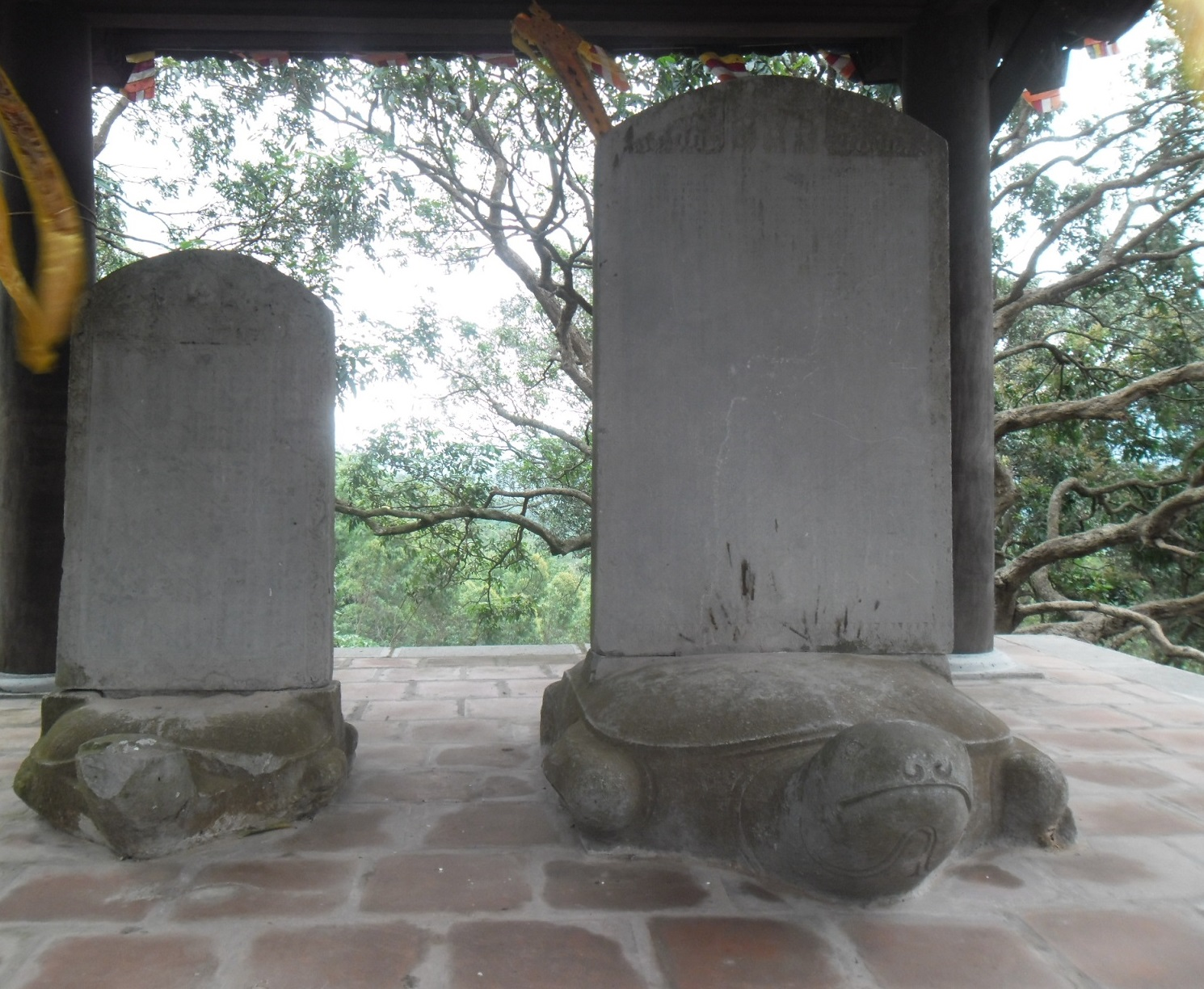 Two stone steles at Thanh Mai temple. The larger stele on the right is a National Treasure of Vietnam